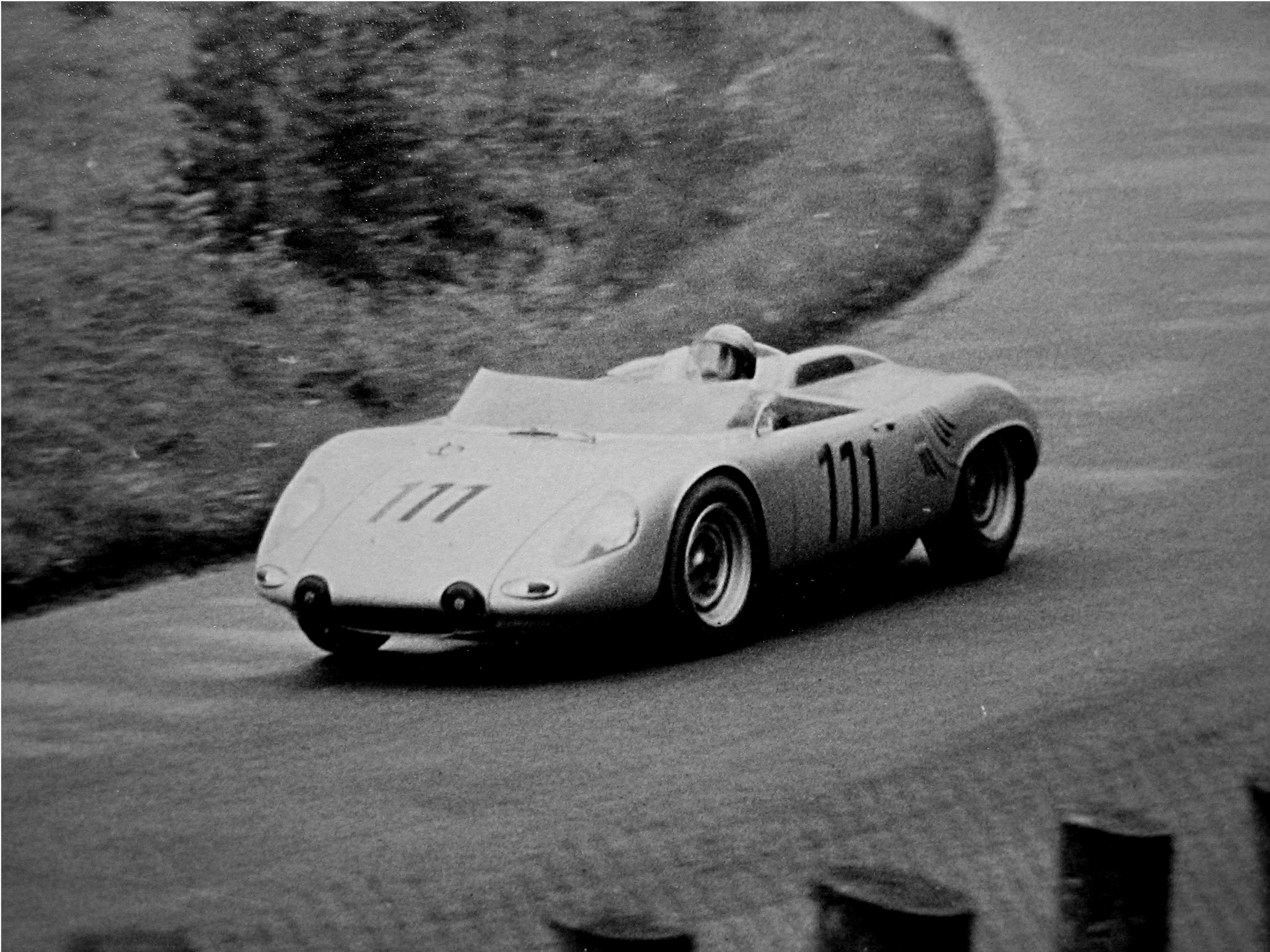 Hans Herrmann at 1000-km-Rennen on Nürburgring 1962 with Porsche RS 61 (8-cylinder).